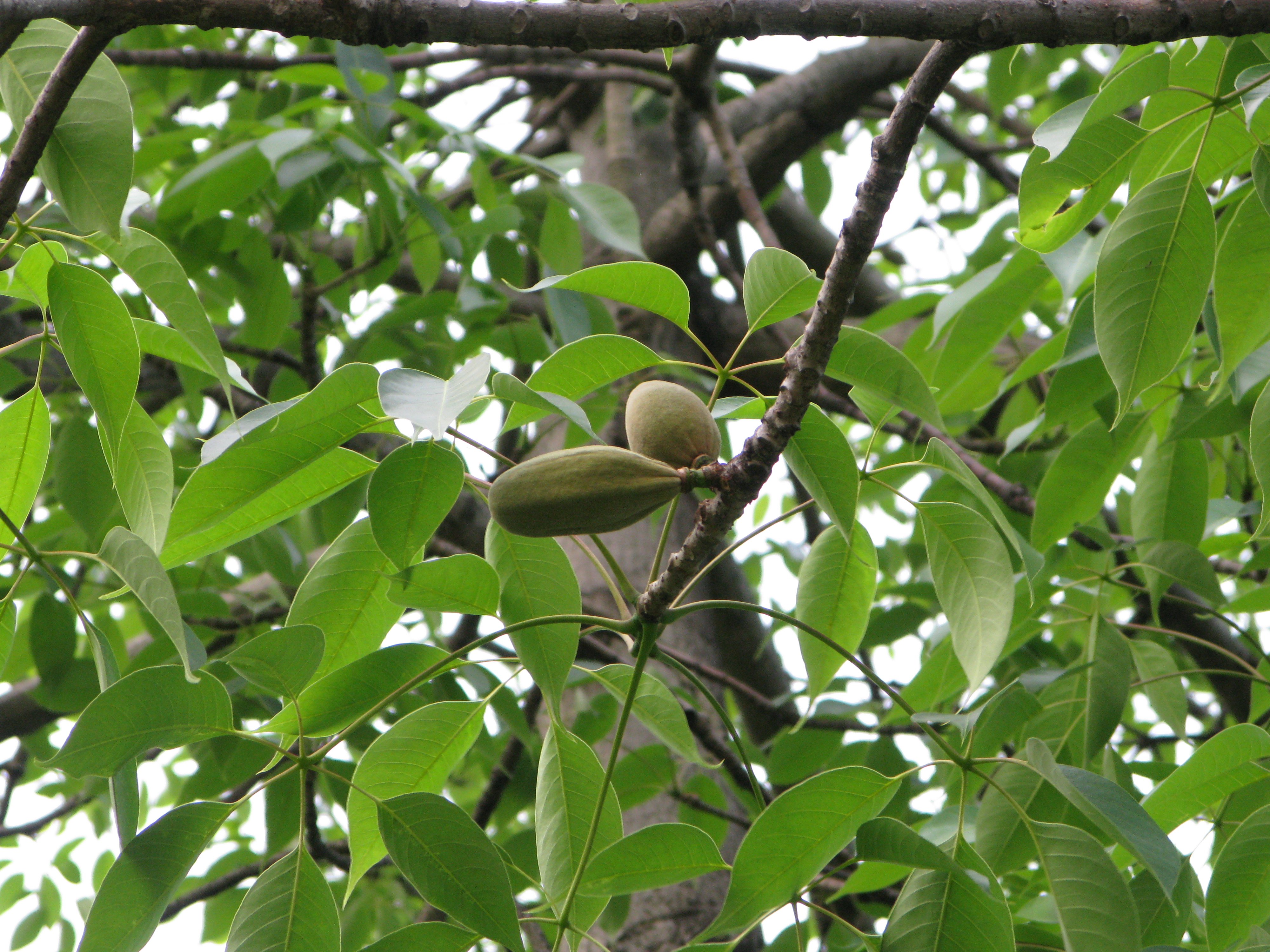 Bombax ceiba’s fruit capsule on a branch – Hong Kong